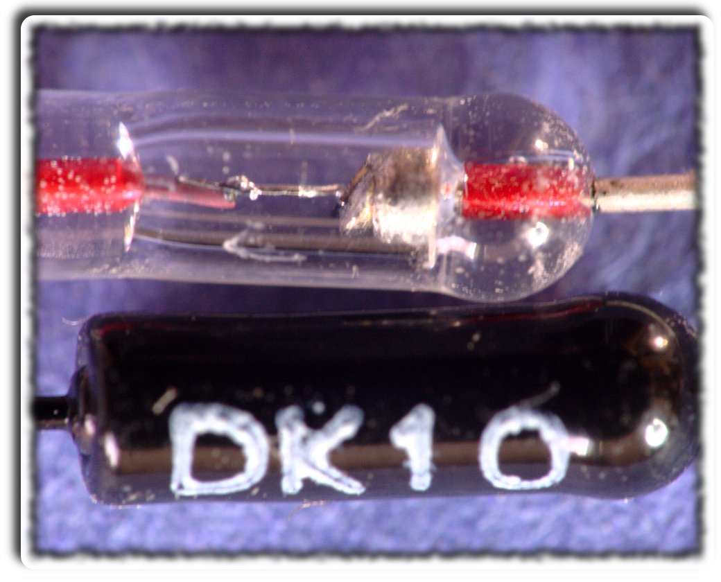 First Polish silicon signal diode DK10